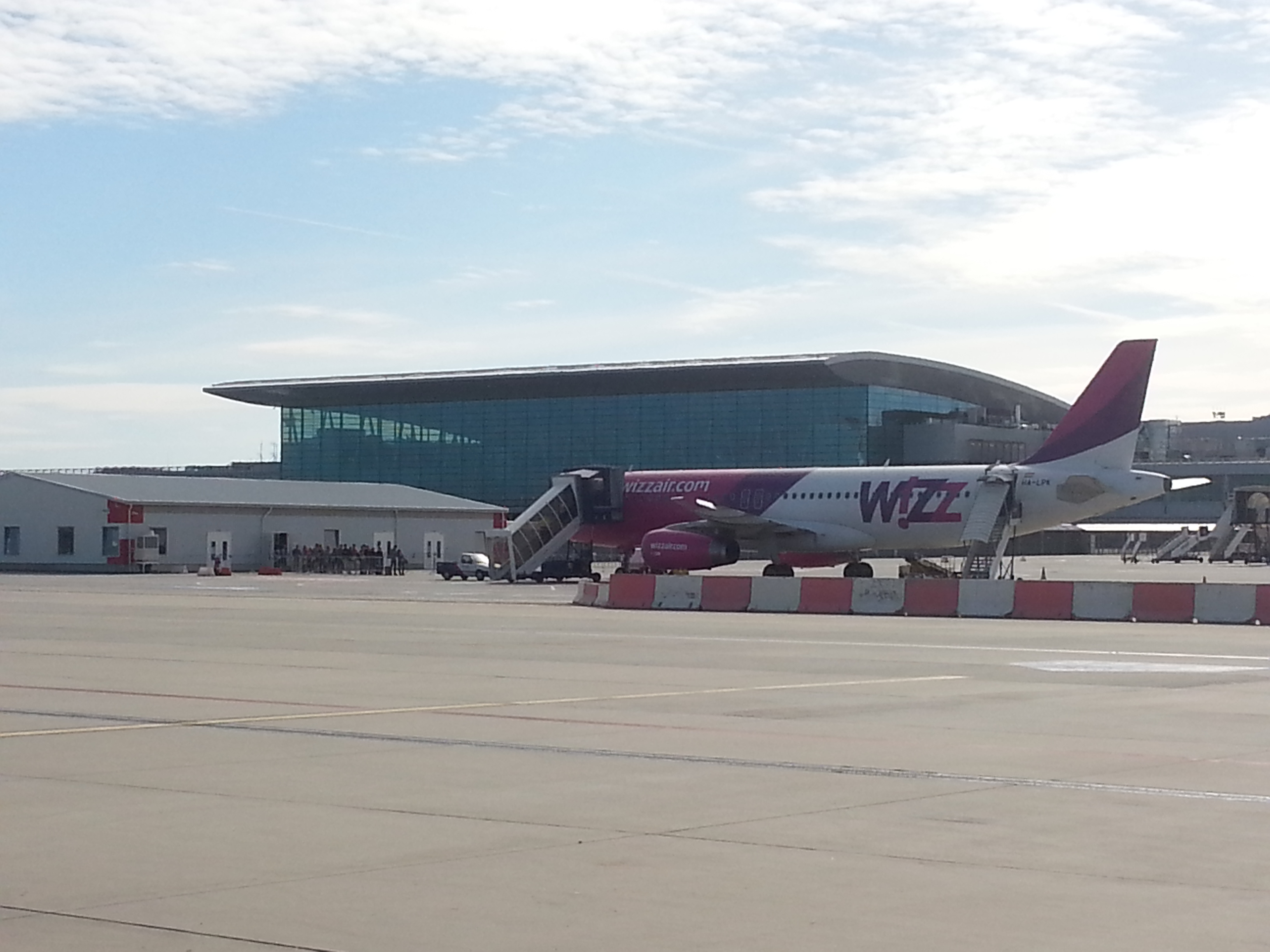 Budapest Liszt Ferenc International Airport SkyCourt from outside